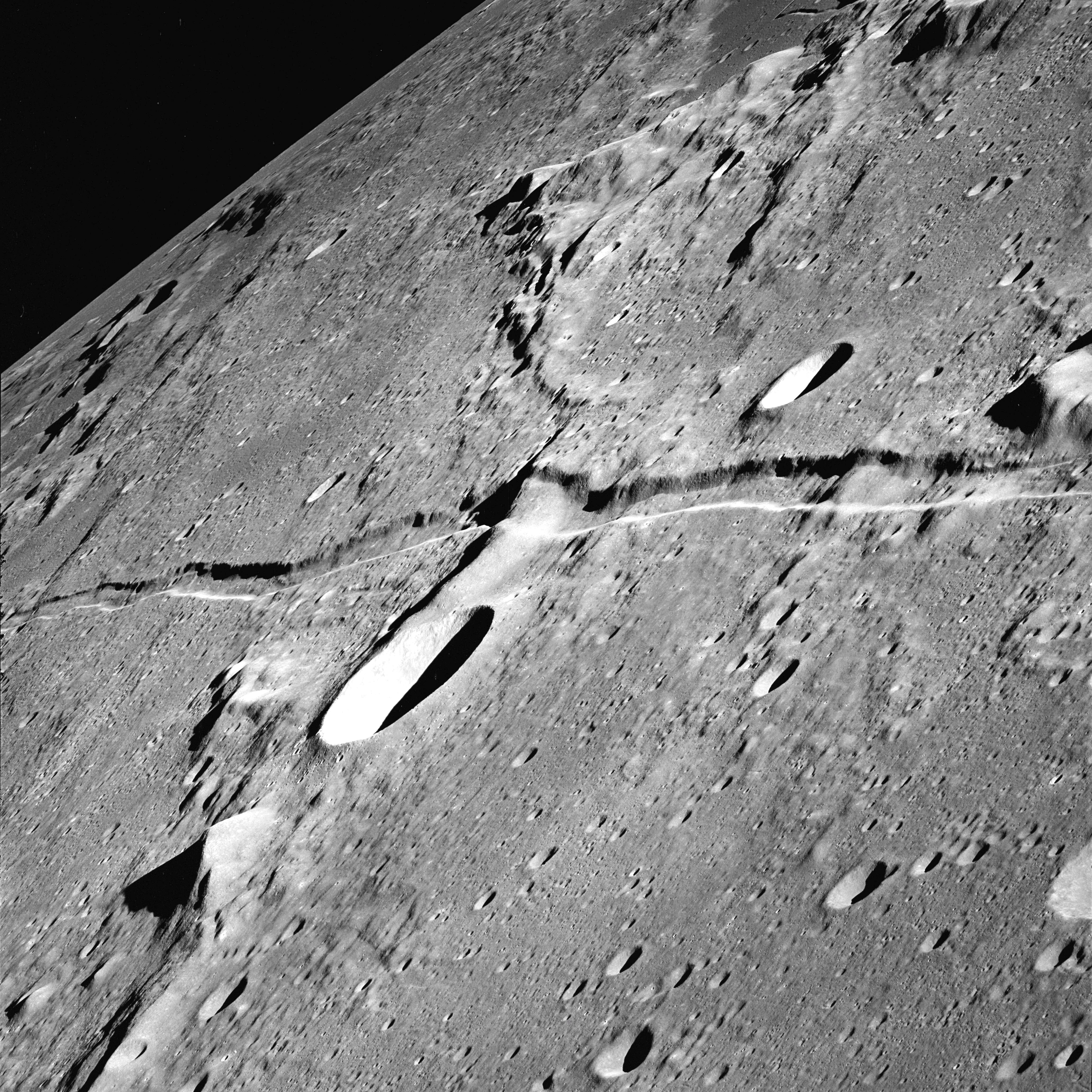 Cutting across the center of this image from the Apollo 10 is the Rima Ariadaeus, a linear rille. The crater to the south of the rille in the left half of the image is Silberschlag. The dark patch at the top right is the floor of Boscovitch crater (a map). Photo by Apollo 10, 1969.